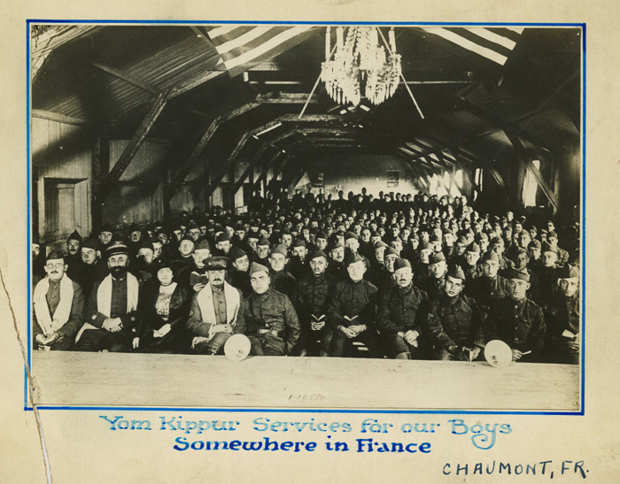 Description: Yom Kippur services for our boys somewhere in France, circa 1917 Creator/Photographer: unknown Medium: black-and-white photographic print Date: circa 1917 Persistent URL: Repository: American Jewish Historical Society Parent Collection: National Jewish Welfare Board Records Call Number: I-337 Rights Information: No known copyright restrictions; may be subject to third party rights. For more copyright information, click here. See more information about this image and others at CJH Digital Collections. To inquire about rights and permissions, or if you have a question regarding the collection to which the image belongs, please contact the Reference Department of the American Jewish Historical Society by email. Digital images created by the Gruss Lipper Digital Laboratory at the Center for Jewish History.